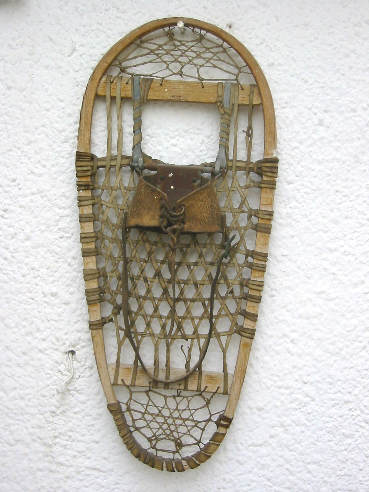 Snowshoe